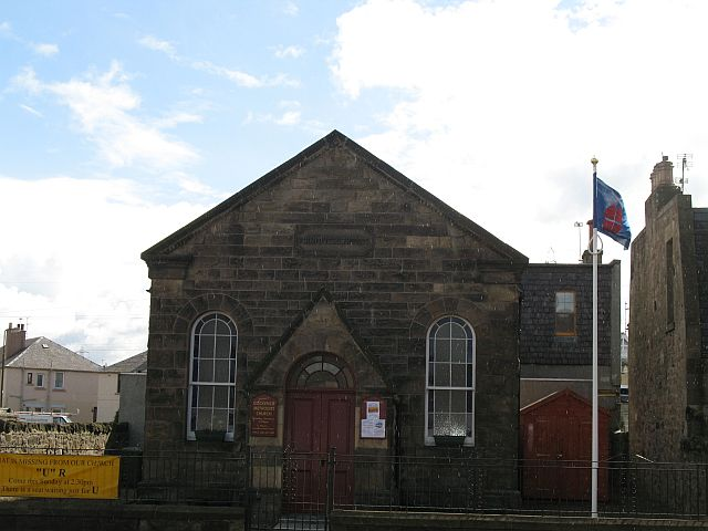 Cockenzie Methodist Church The flag has recently turned blue from white. A feature of Cockenzie and Port Seaton is the enormous variety of churches in the community. The chapel here owes its origins to contact with Methodists in Great Yarmouth. Fishermen followed the herring to Norfolk and brought new ideas back with them.